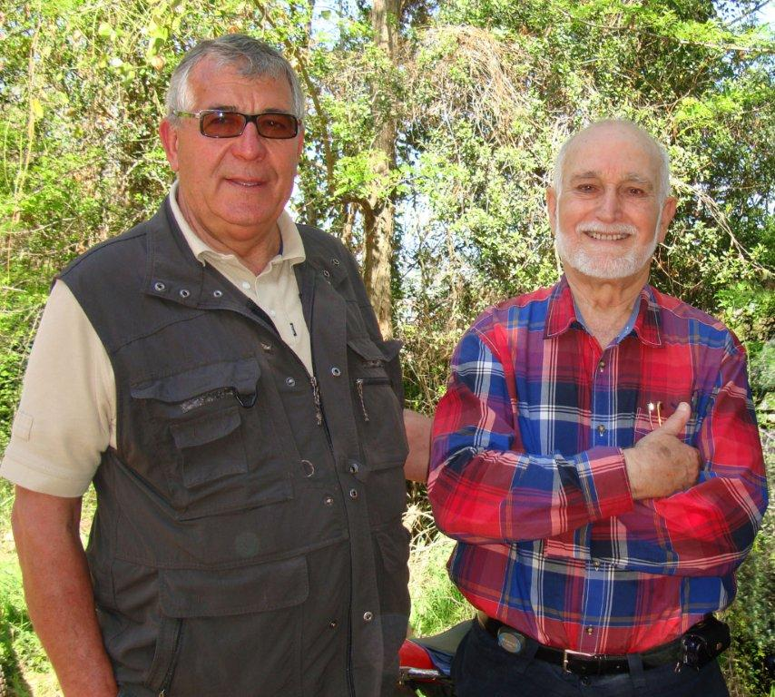 Joan Bordas and Pere Pi in 2011